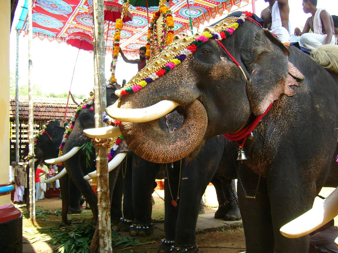 elephant at spring harvest festival kerala vishu india temple